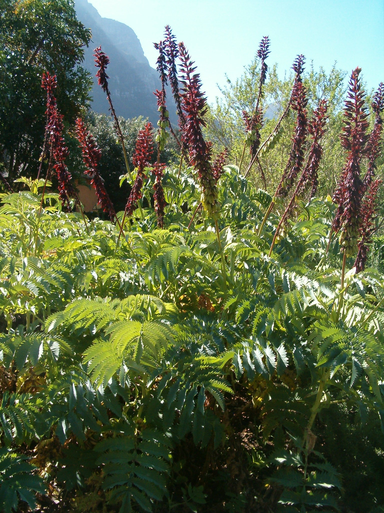 At Kirstenbosch National Botanical Gardens Species Melianthus major